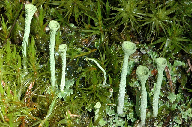 Picture taken in Commanster, Belgian High Ardennes . Species: Cladonia fimbriata